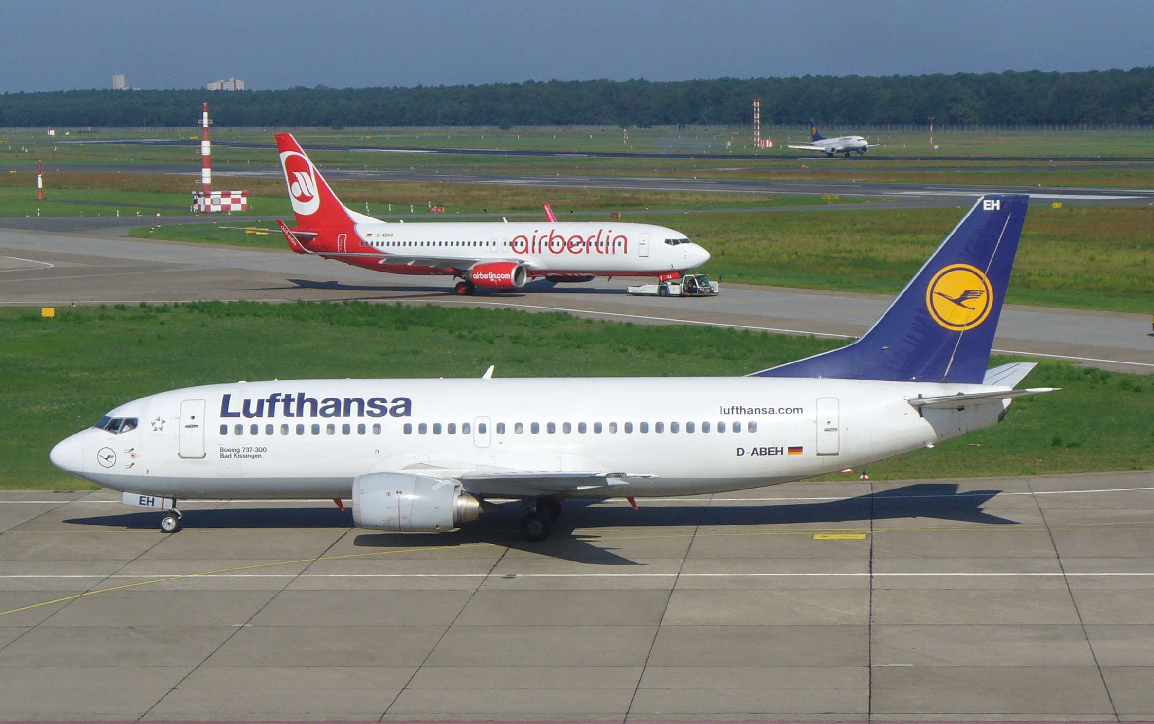 A Boeing 737-300 of Lufthansa (registered D-ABEH, named "Bad Kissingen") at Berlin Tegel Airport, shortly after landing as Flight 2883 from Cologne.